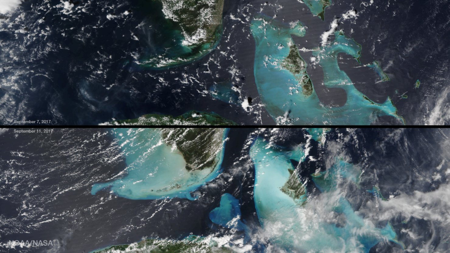 Waters around the southern tip of the Florida Peninsula, Strait of Florida, and central Bahamas Islands before (September 7, 2017) and after (September 11, 2017) the passage of Hurricane Irma (September 9-10, 2017), which stirred up sediment in the waters noticeable in this image. The image was tweeted by the "NOAA Satellites" Twitter account on September 13, 2017 with the following text: "Check out these side by side images showing #Irma's effect on the distribution of sediment around Florida: goo.gl/EaqL5H" On NOAA's website, the following explanation was given for the image: "Hurricane Irma didn't just impact land. As seen in these before-and-after true-color images captured by the VIIRS instrument on the NOAA/NASA Suomi NPP satellite September 7, 2017 (top) and September 11 (bottom), the storm altered the distribution of sand around the coast of Florida. The light blue color shows sediment suspended in the water, kicked up by the intensity of the storm. According to the Florida Keys National Marine Sanctuary, damage to natural resources in the region could be significant. Although true-color images like this may appear to be photographs of Earth, they aren't. They are created by combining data from the three color channels on the VIIRS instrument sensitive to the red, green and blue (or RGB) wavelengths of light into one composite image. In addition, data from several other channels are often also included to cancel out or correct atmospheric interference that may blur parts of the image."